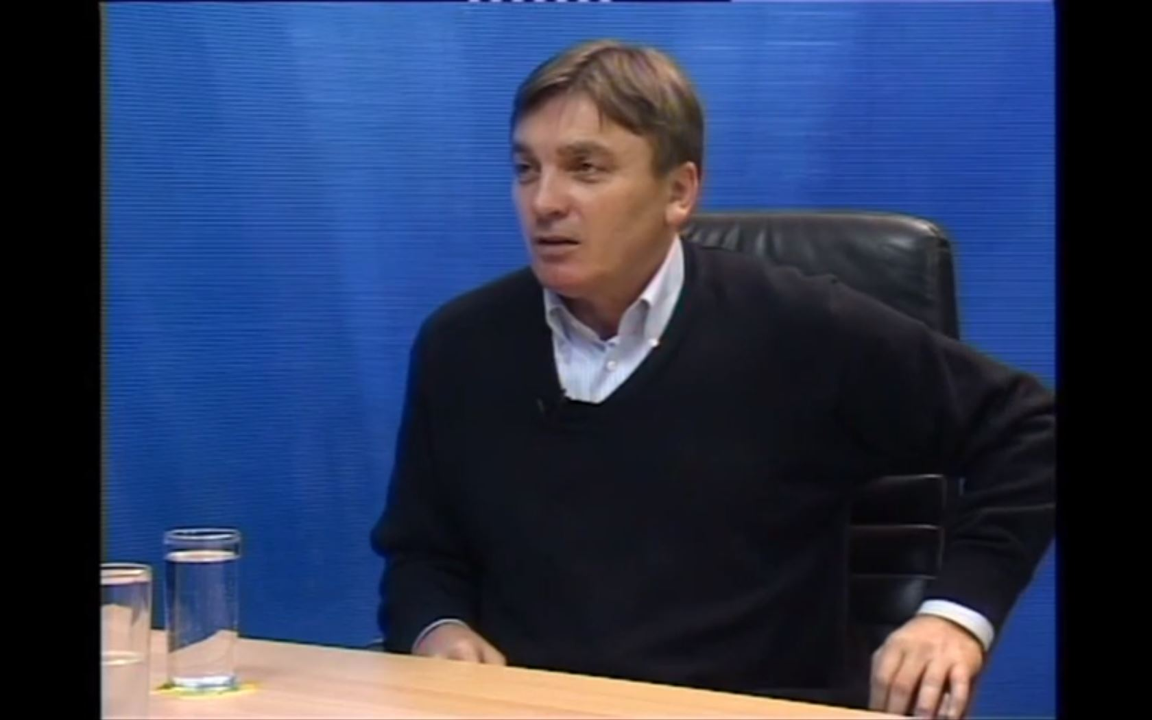 Nenad Prokic